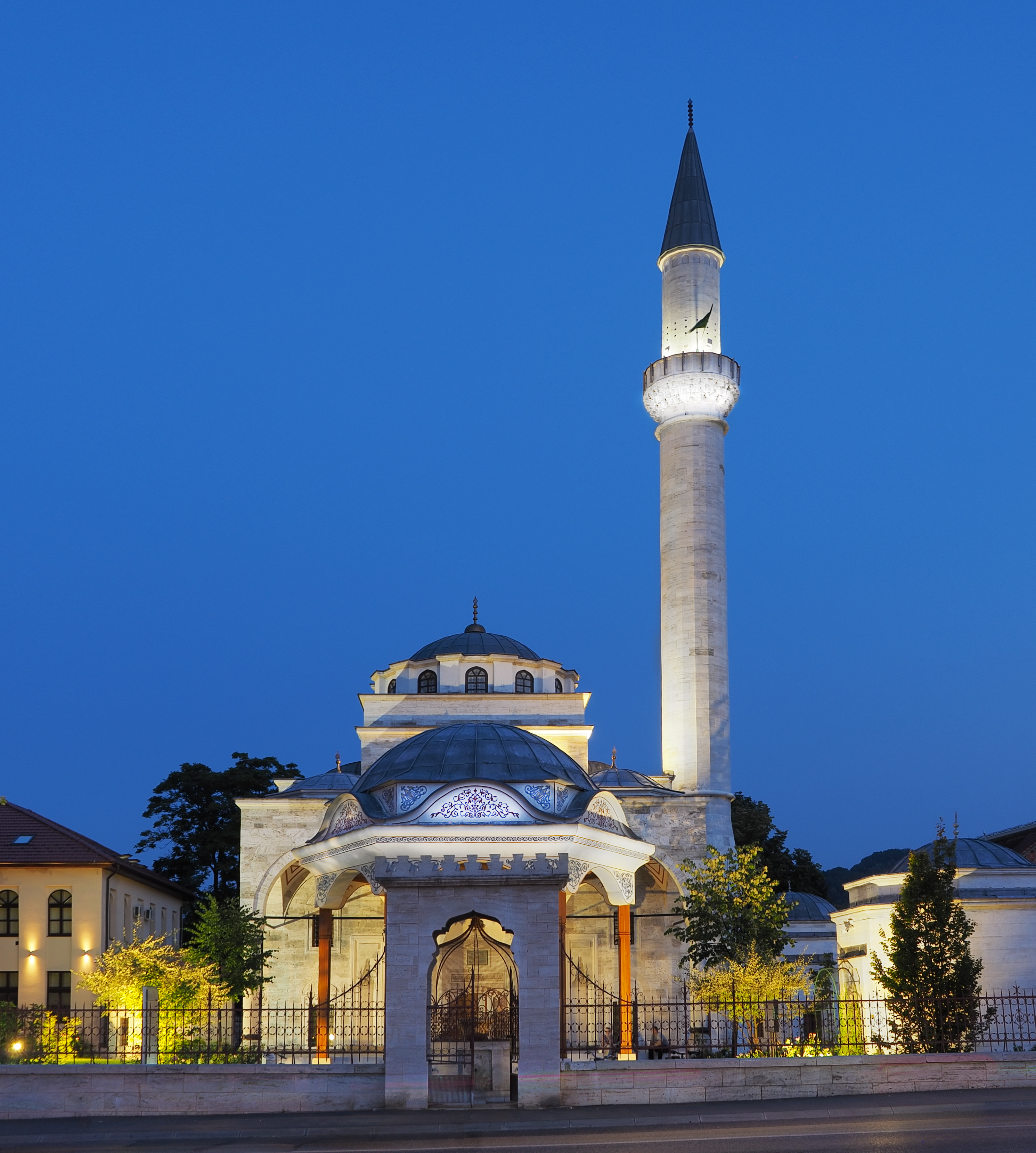 Ferhat-pasha mosque, Banja Luka, Republika Srpska Ферхад-пашина (Ферхадија) џамија, са Ферхад-пашиним турбетом, турбетом Сафи-кадуне, турбетом пашиних барјактара, шадрваном, харемом, оградним зидовима и порталом, Бања Лука ID добра: NKD138 This image was uploaded as part of Trace of Soul 2017. This photograph was taken with a Olympus E-M1.